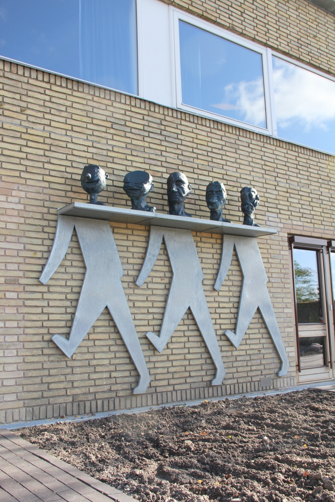 "Five steps towards never ending joy" by Poul R. Weile, Nyborg Gymnasium, Nyborg, Denmark, 2008, art in public space